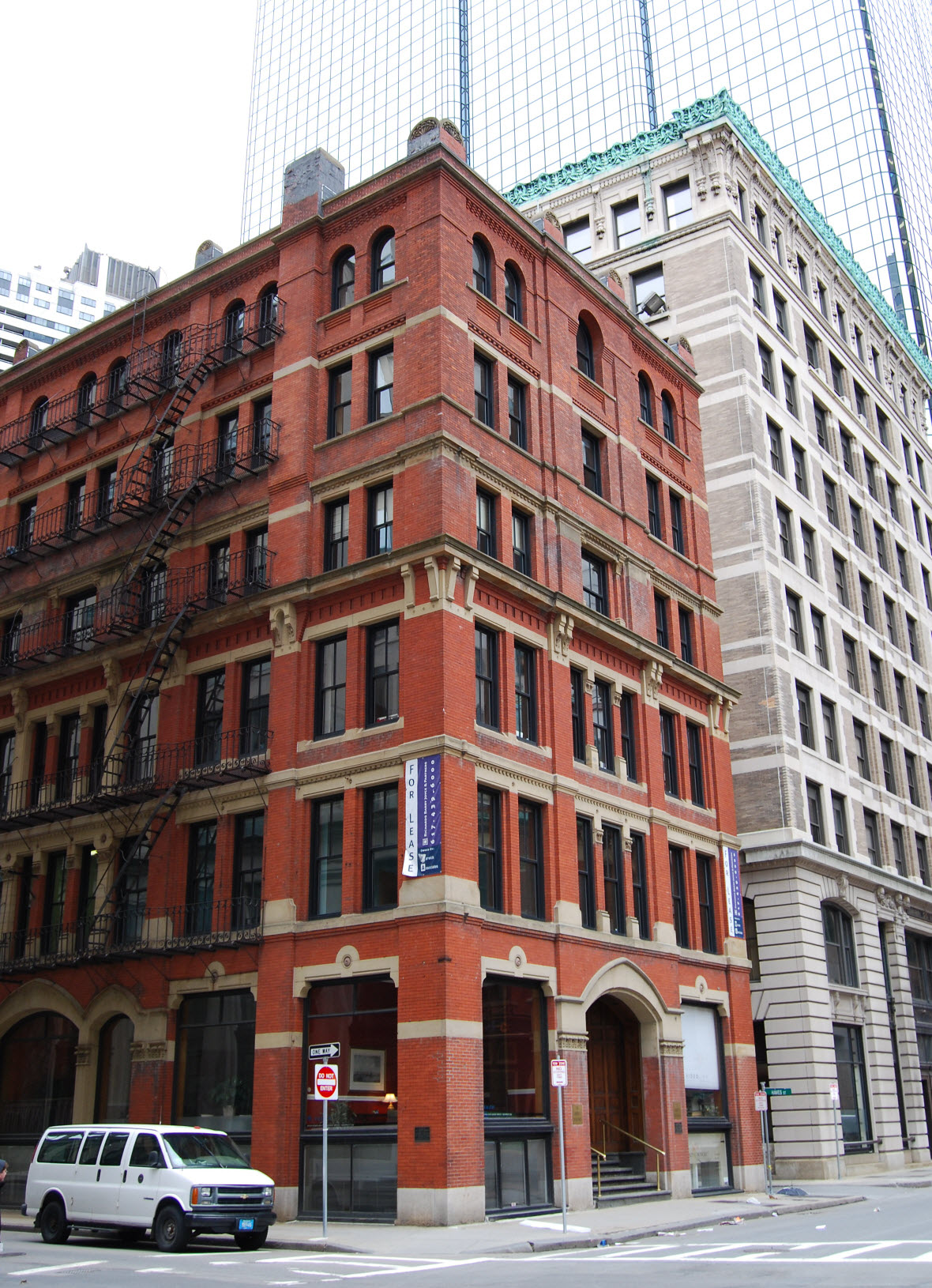 Codman Building is a historic building at 55 Kilby Street (also known as 10 Liberty Square) in Boston, Massachusetts. The building was constructed in 1873 by Sturgis & Brigham and T.J. Whidden. It was added to the National Historic Register in 1983.